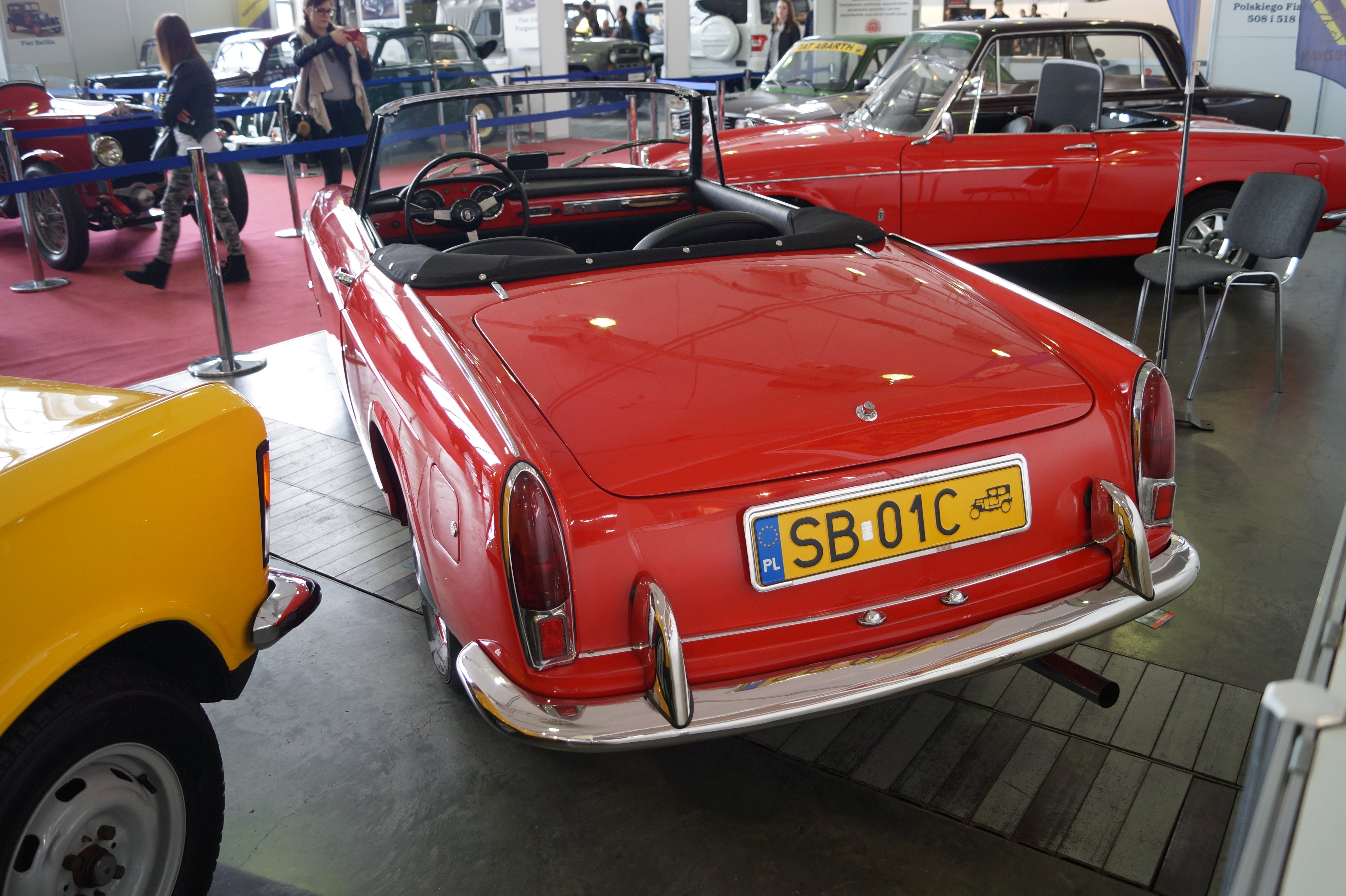 The making of this document was supported by Wikimedia Polska Association, within Wikigrant no. WG 2016-10. English | polski | +/− Tył Fiata 1200 Pininfarina na Motor Show Poznań 2016